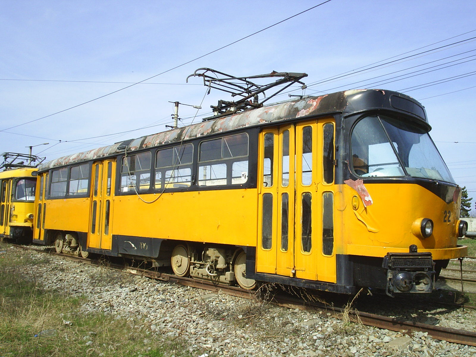 Tram Tatra T4D in Botosani tram depot originally coming from Magdeburg.